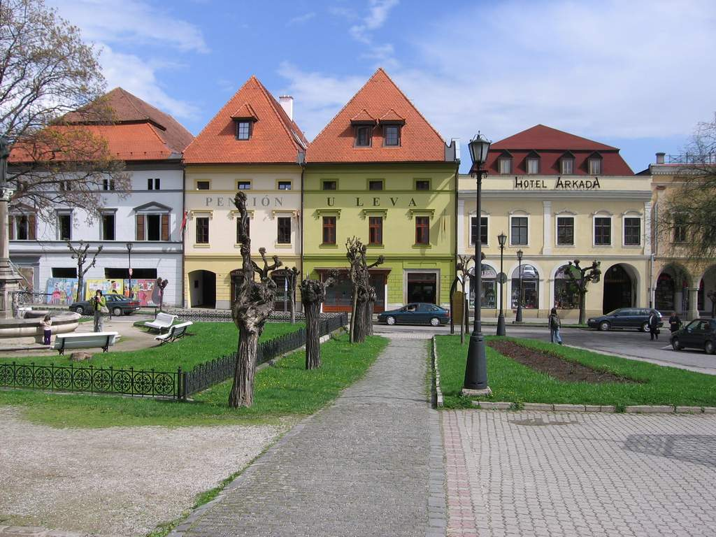 A view across the main square of the oldtown in Levoča.